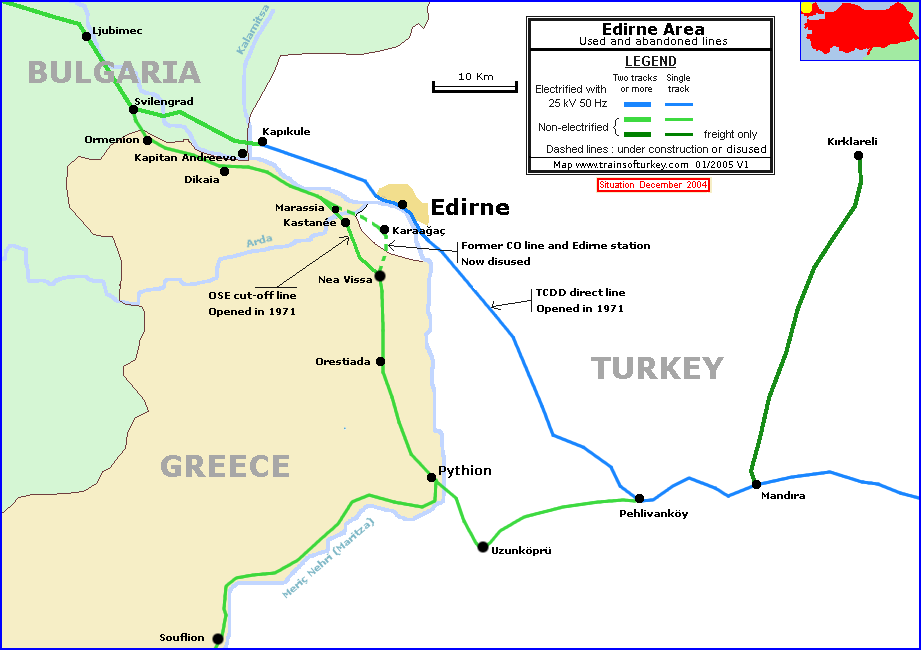 Map of the old and new lines in Edirne area after the realignement of 1971